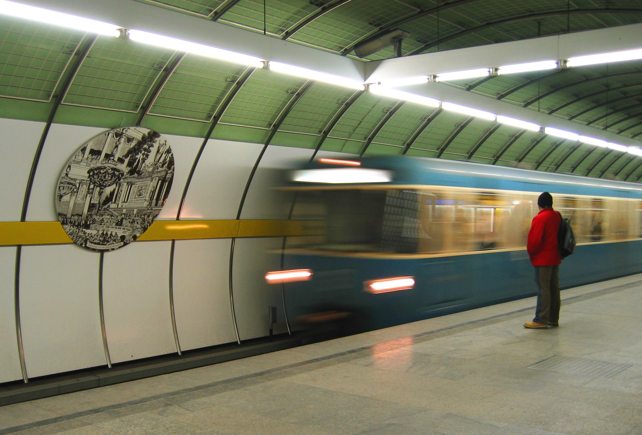 Munich subway station Odeonsplatz (U4+U5)